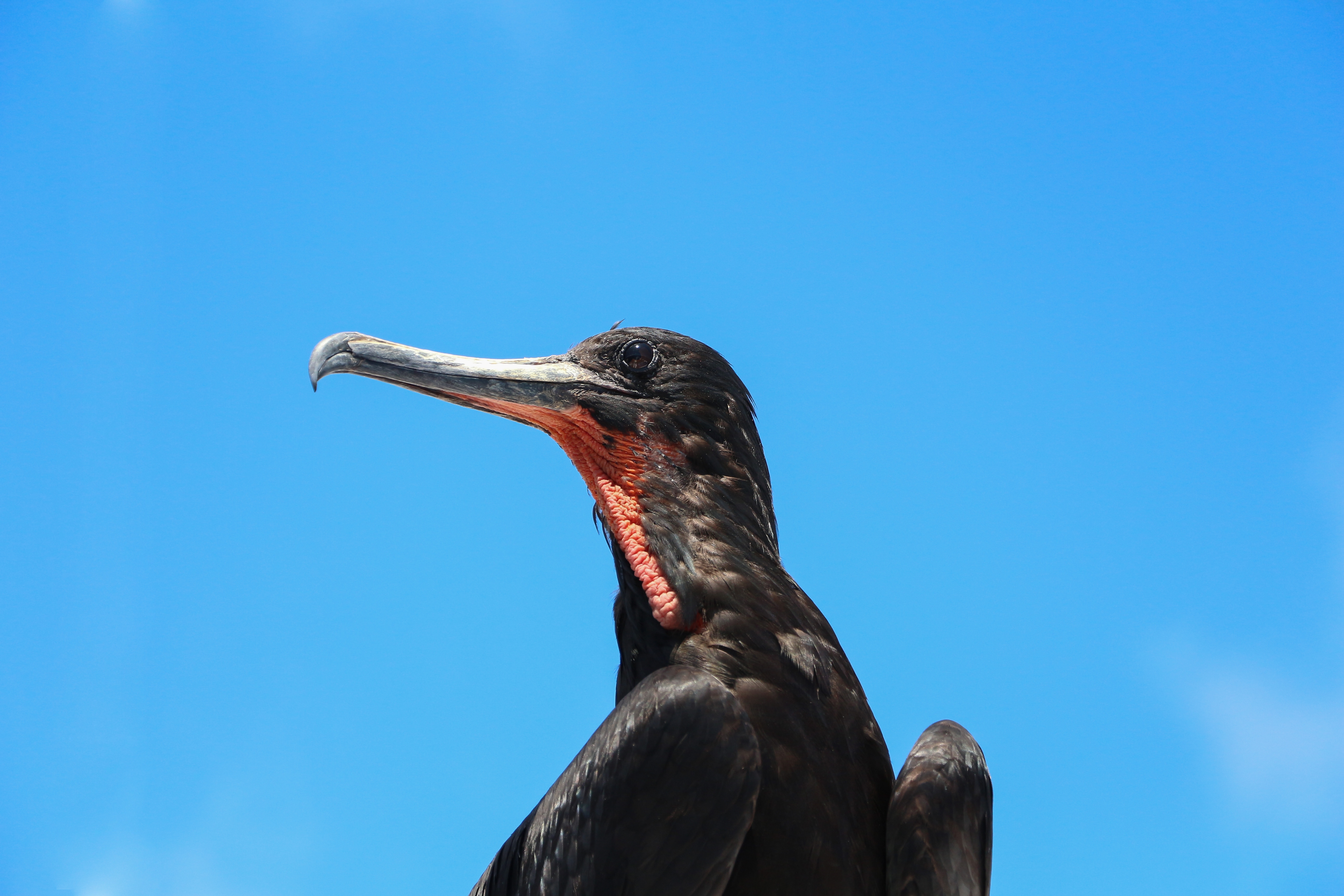 Great frigatebird (Fregata minor), Plaza Sur Island, Galápagos National Park, Ecuador